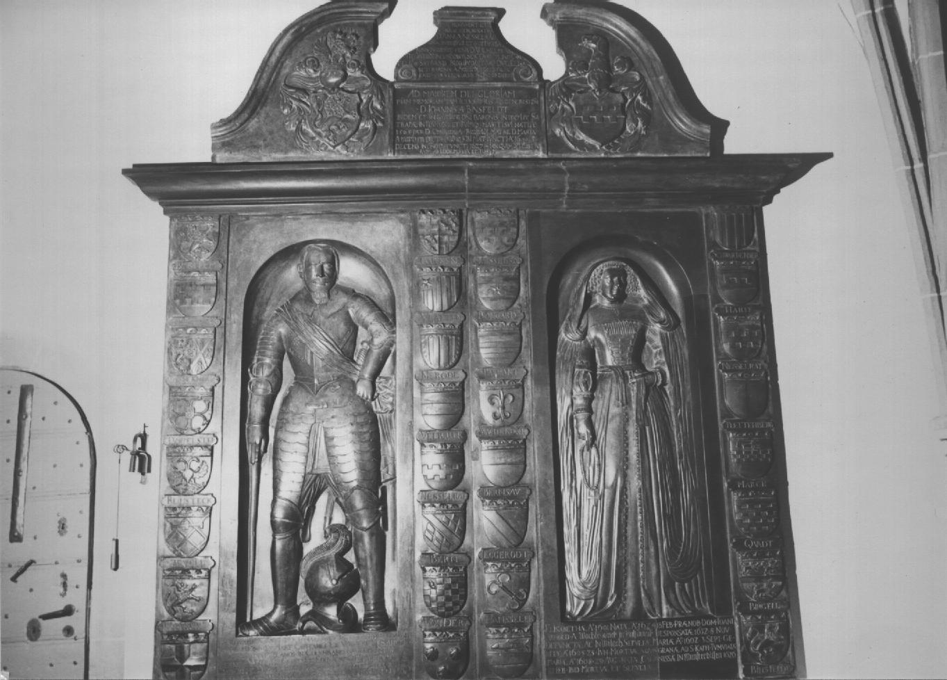 Binsfeld (Nörvenich), Epitaph own work, papa1234 2004-03-17